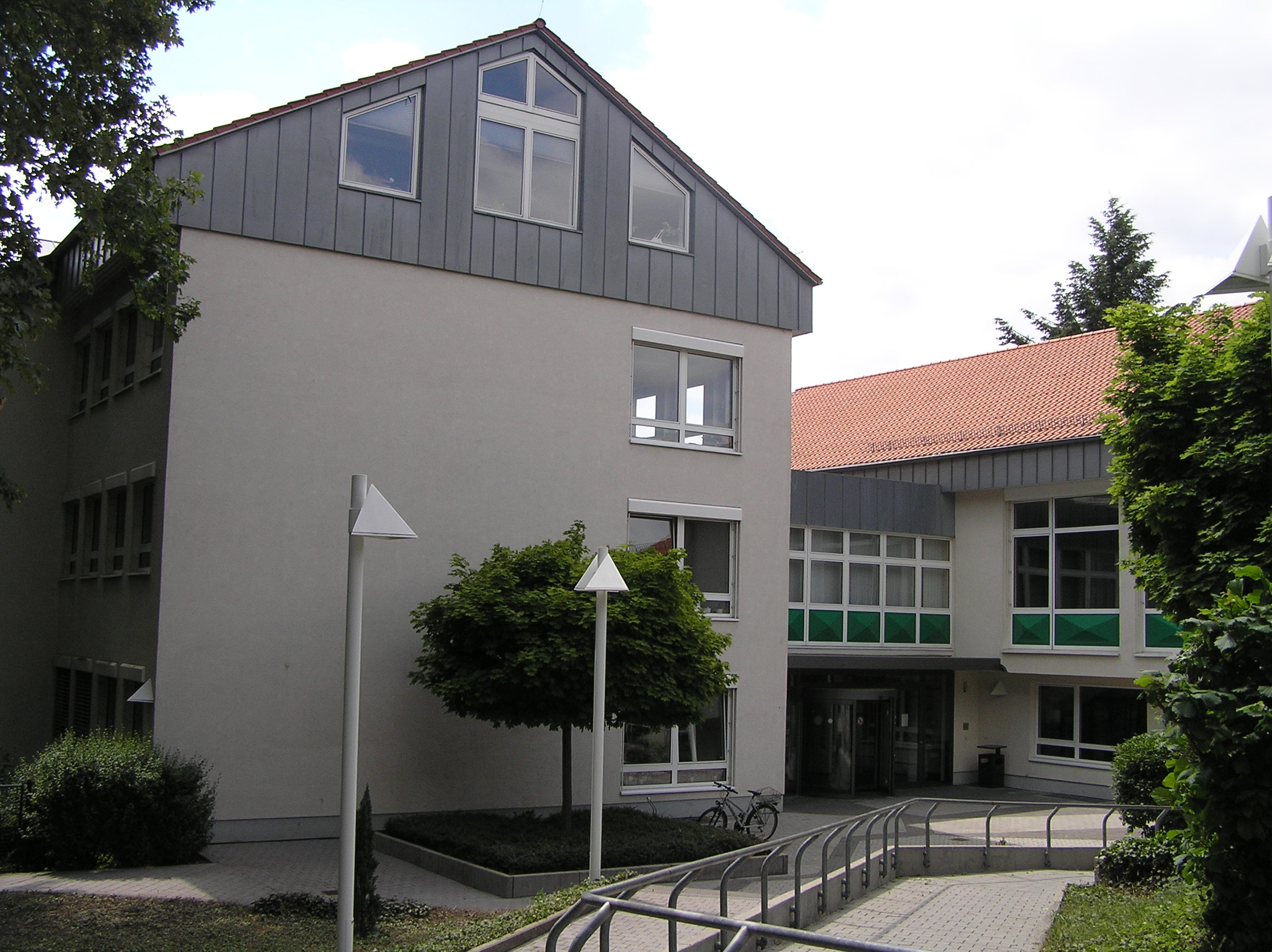 Courthouse in Bad Homburg vor der Höhe, Hesse, Germany